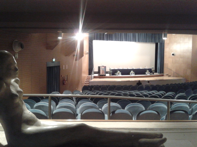 Sculpture of woman inside the theater